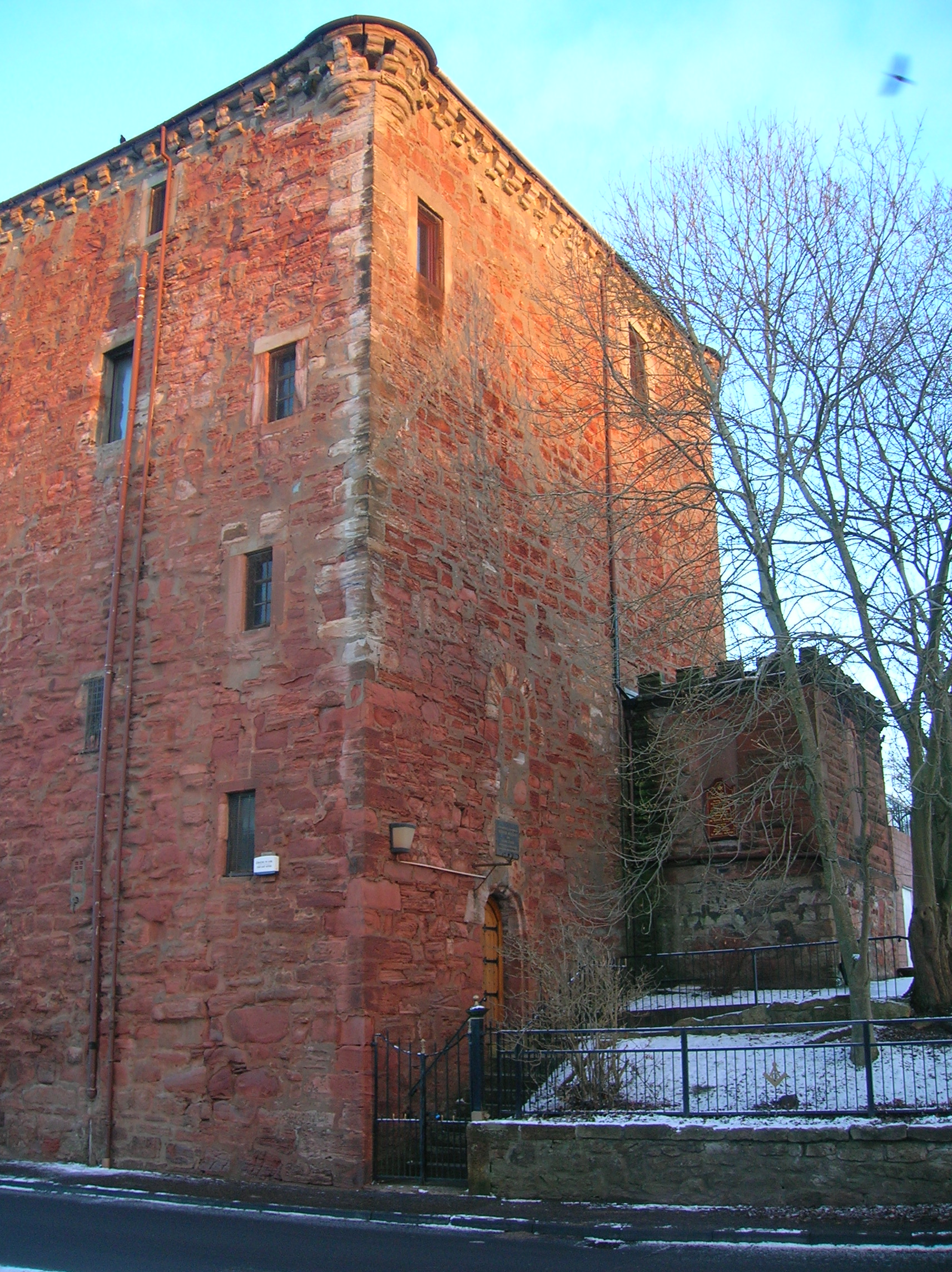 The Barr Castle or Lockhart's Tower from the south-west, Galston, East Ayrshire, Scotland. Now in use as a Masonic Lodge.